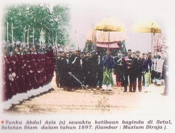 Kedahan Royal Posession in Setul, 1897